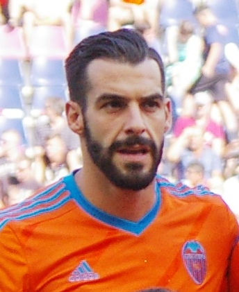 tournament with SV Werder Bremen, FC Southampton, Red Bull Salzburg and Valencia CF preseason friendly matches